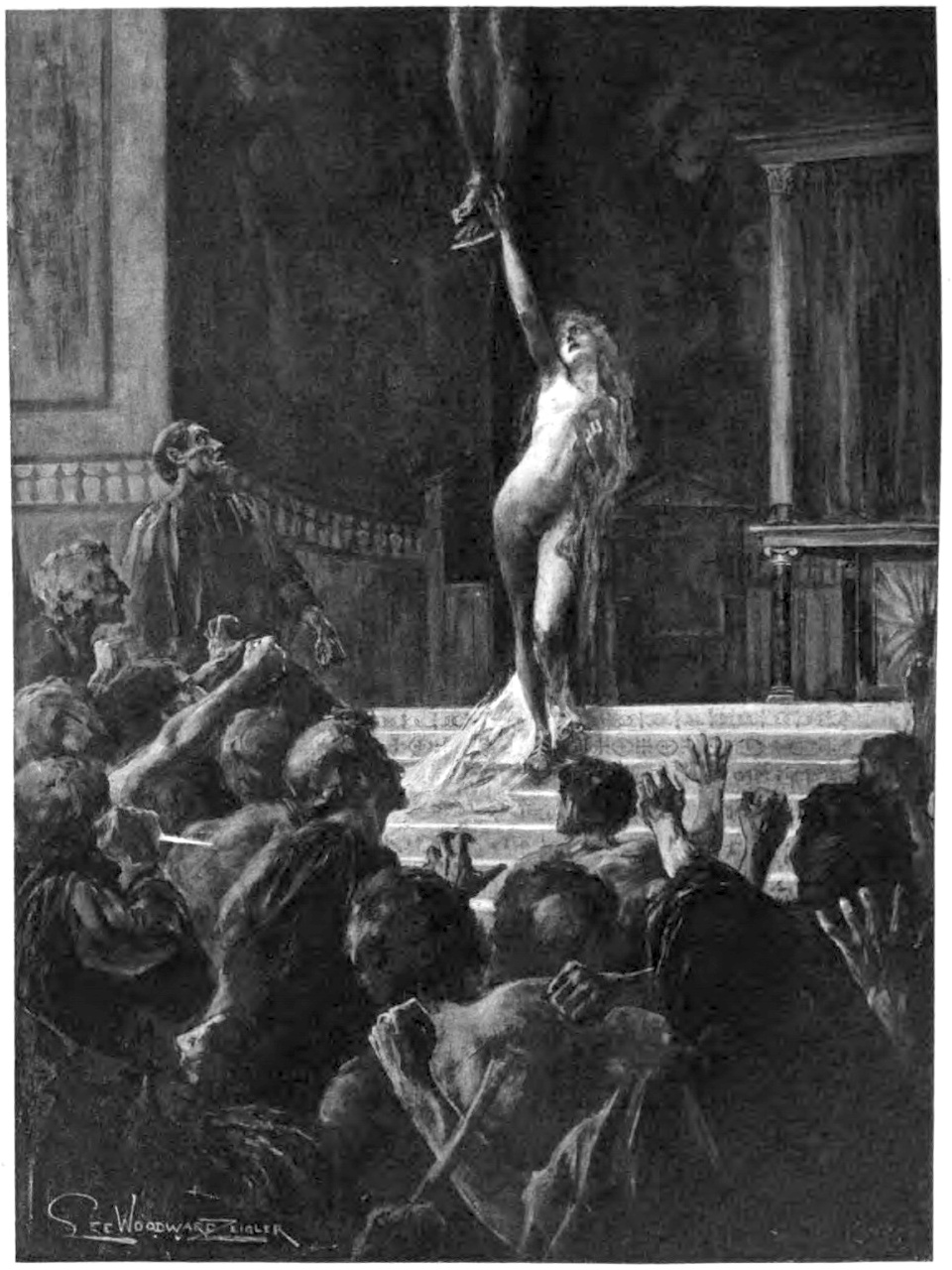 "Rose for one moment to her full height." Illustration from an 1899 edition of Charles Kingsley's 1853 novel Hypatia. Picture is from Vol. 2, chapter 29, page 264. It shows Hypatia, naked, being attacked by a Christian mob.